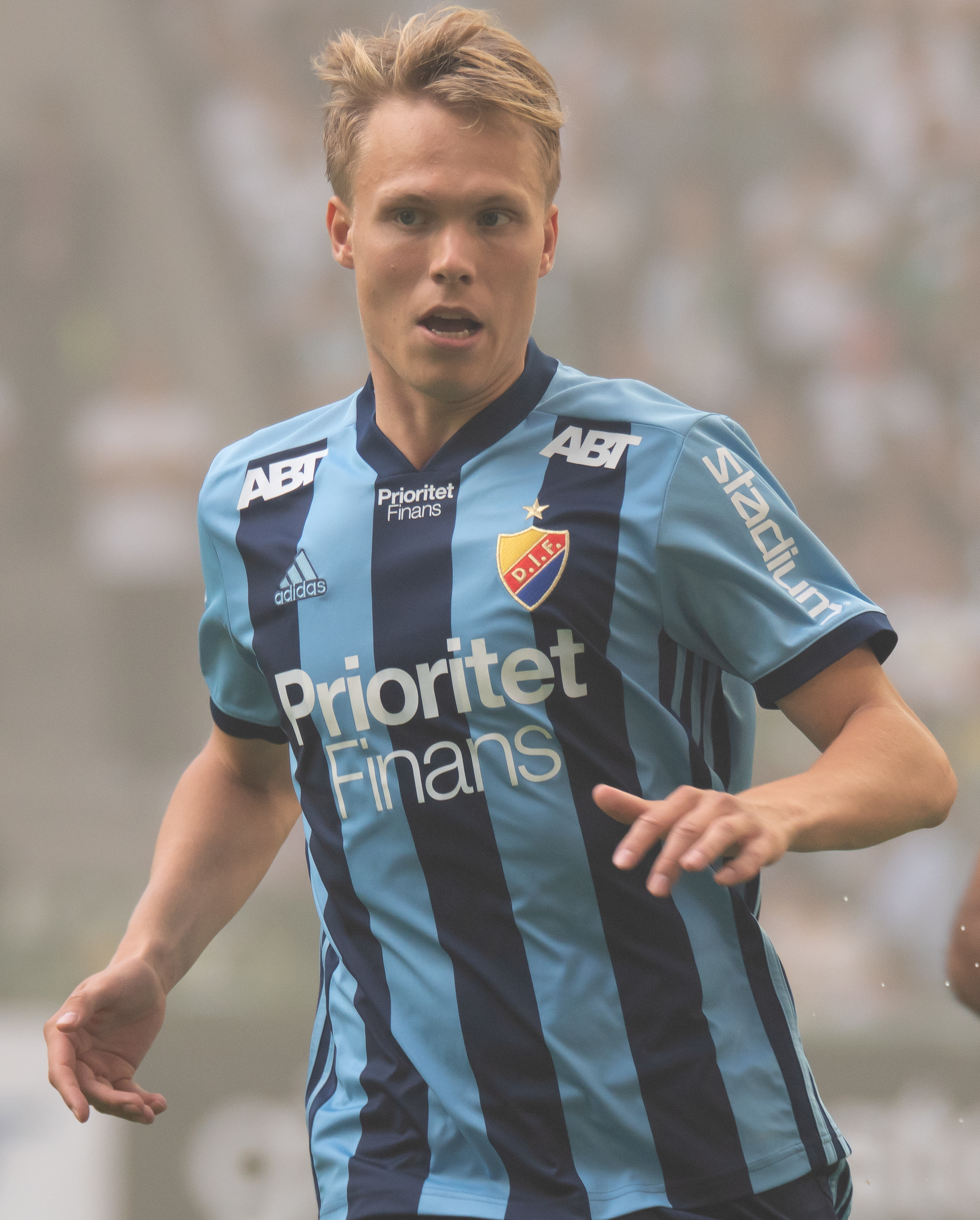 Hammarby-Djurgården 2018-09-03